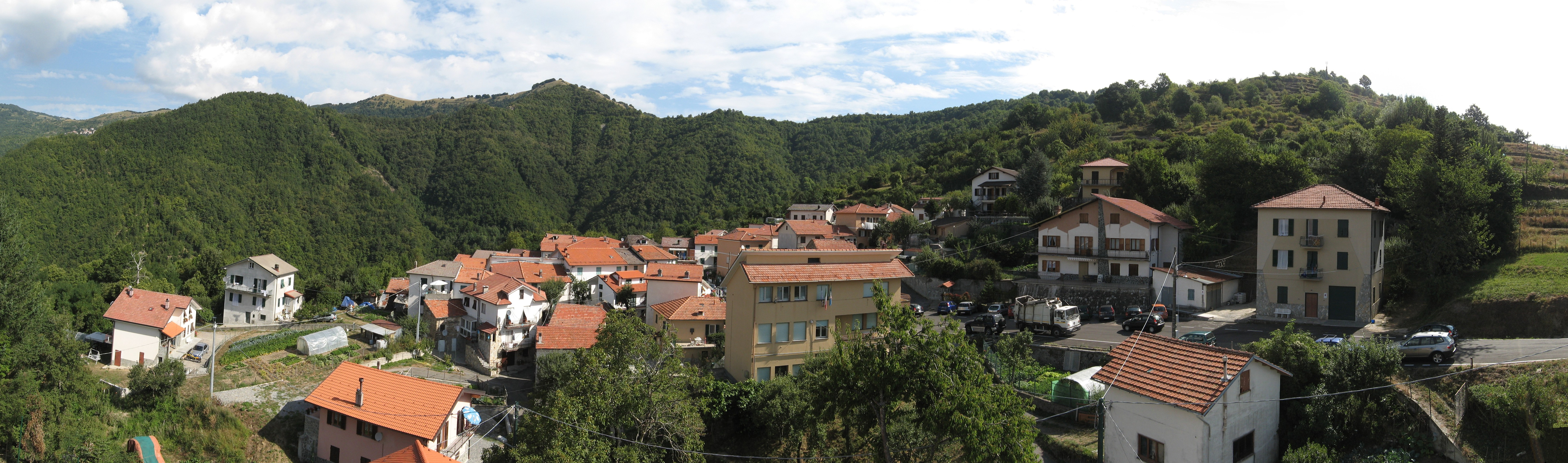 Panorama photo of Carpeneto di Fascia (GE, Italy), from the steeple of the parish church